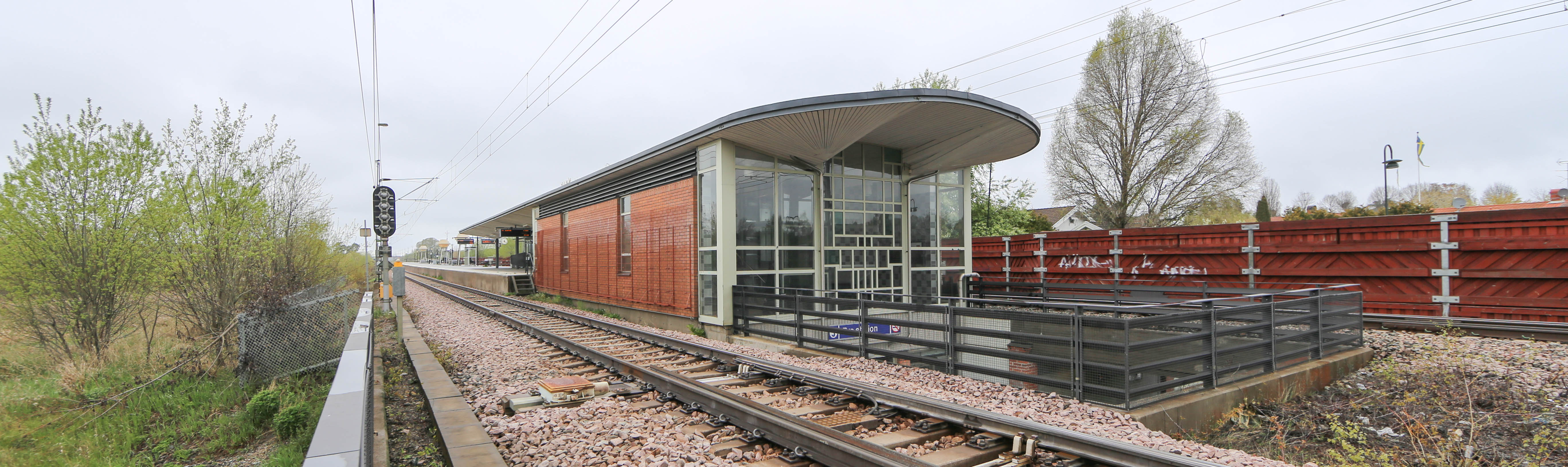 Bro station, Stockholm County